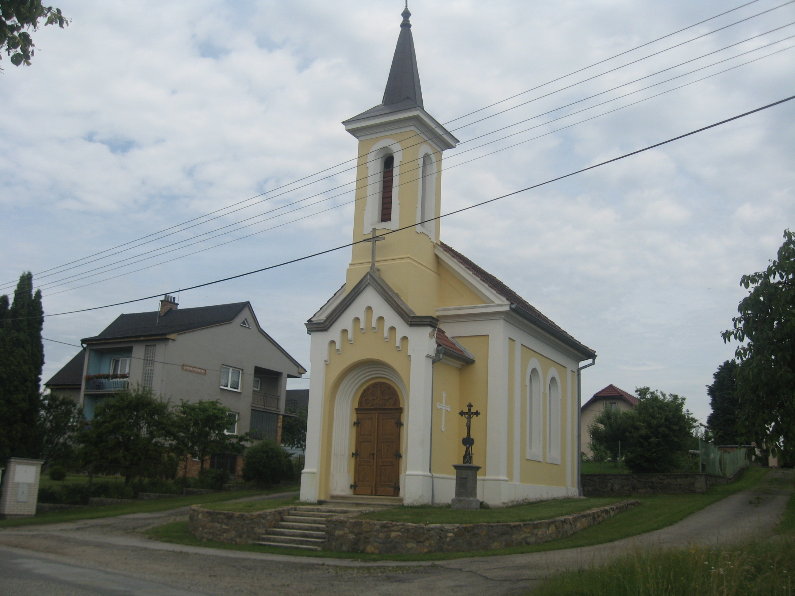 Chapel from 1911 in Lhotice